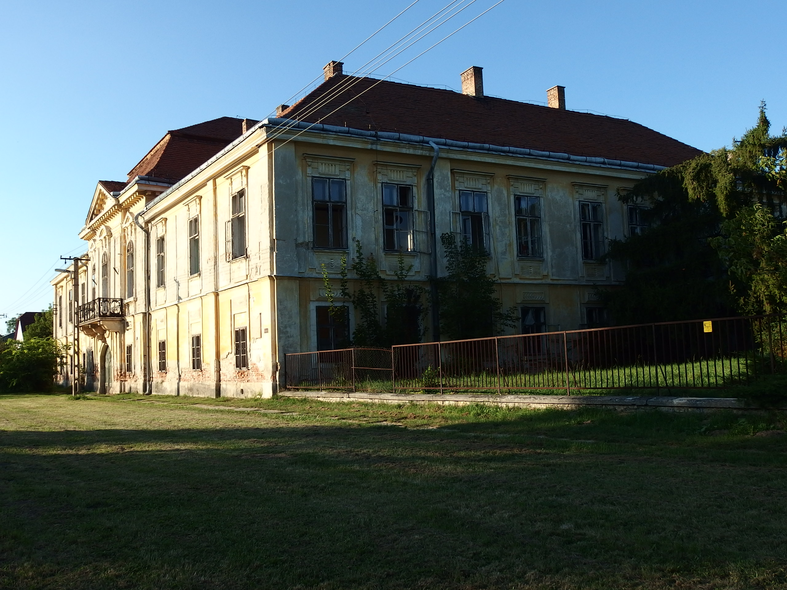 The Ürményi Castle in village Vál, Hungary